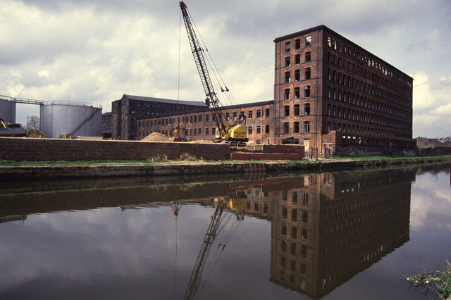 Hunslet Mills This part of Leeds is changing very rapidly. It was a derelict wasteland when I took this. A quote from "Bright Future - The Re-use of Industrial Buildings" by Binney et al (1990) seems in order - "Hunslet Mill is the only remaining building of architectural merit in an abandoned urban wilderness where recent development has contributed nothing to the quality of the environment". Built 1838-40 for steam powered flax spinning and reliably attributed to William Fairbairn and is a good example of early fireproof construction.